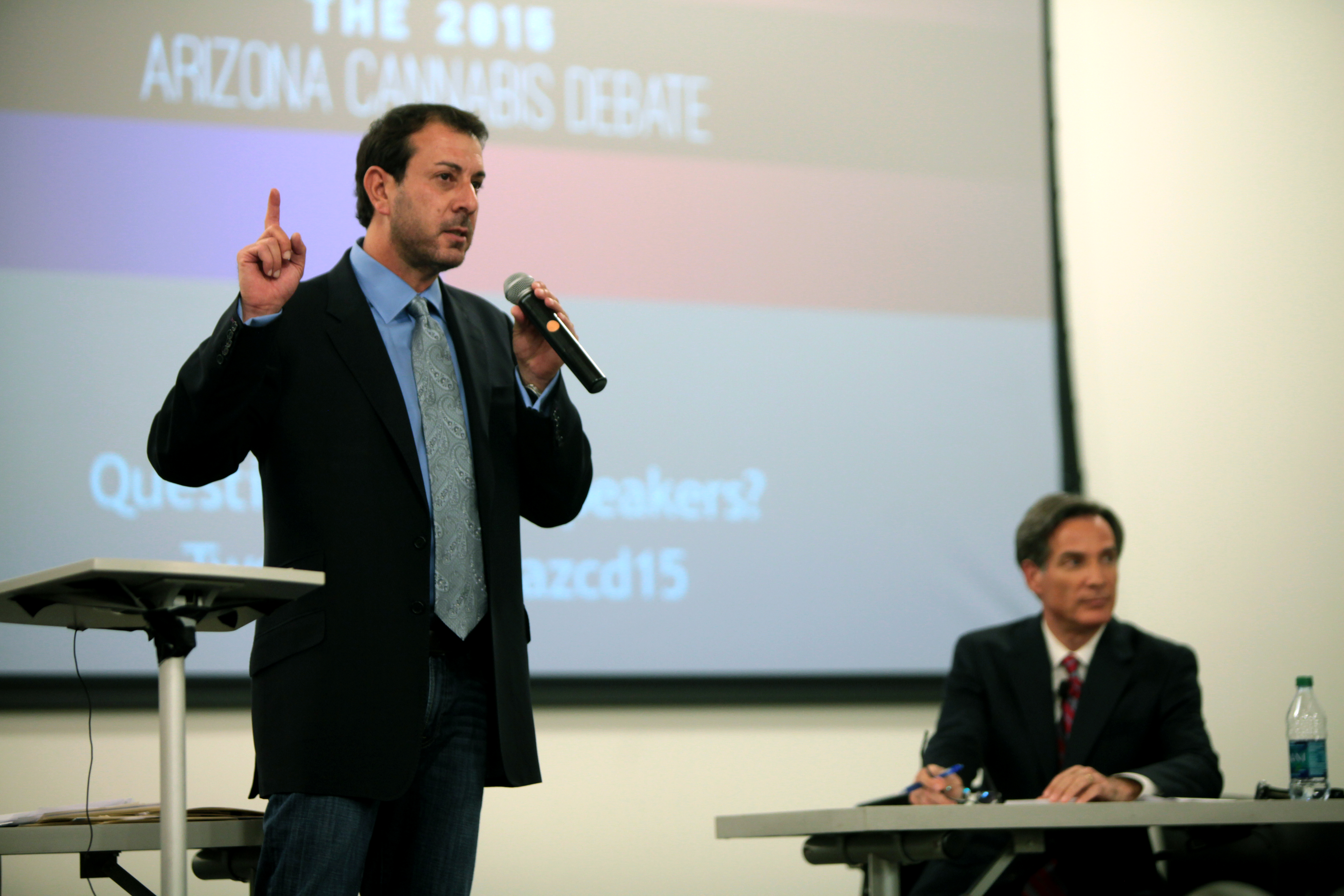 Seth Leibsohn (standing) and Brahm Resnik at a debate regarding legalizing marijuana in Arizona on April 29, 2015 at Arizona State University in Phoenix, Arizona.